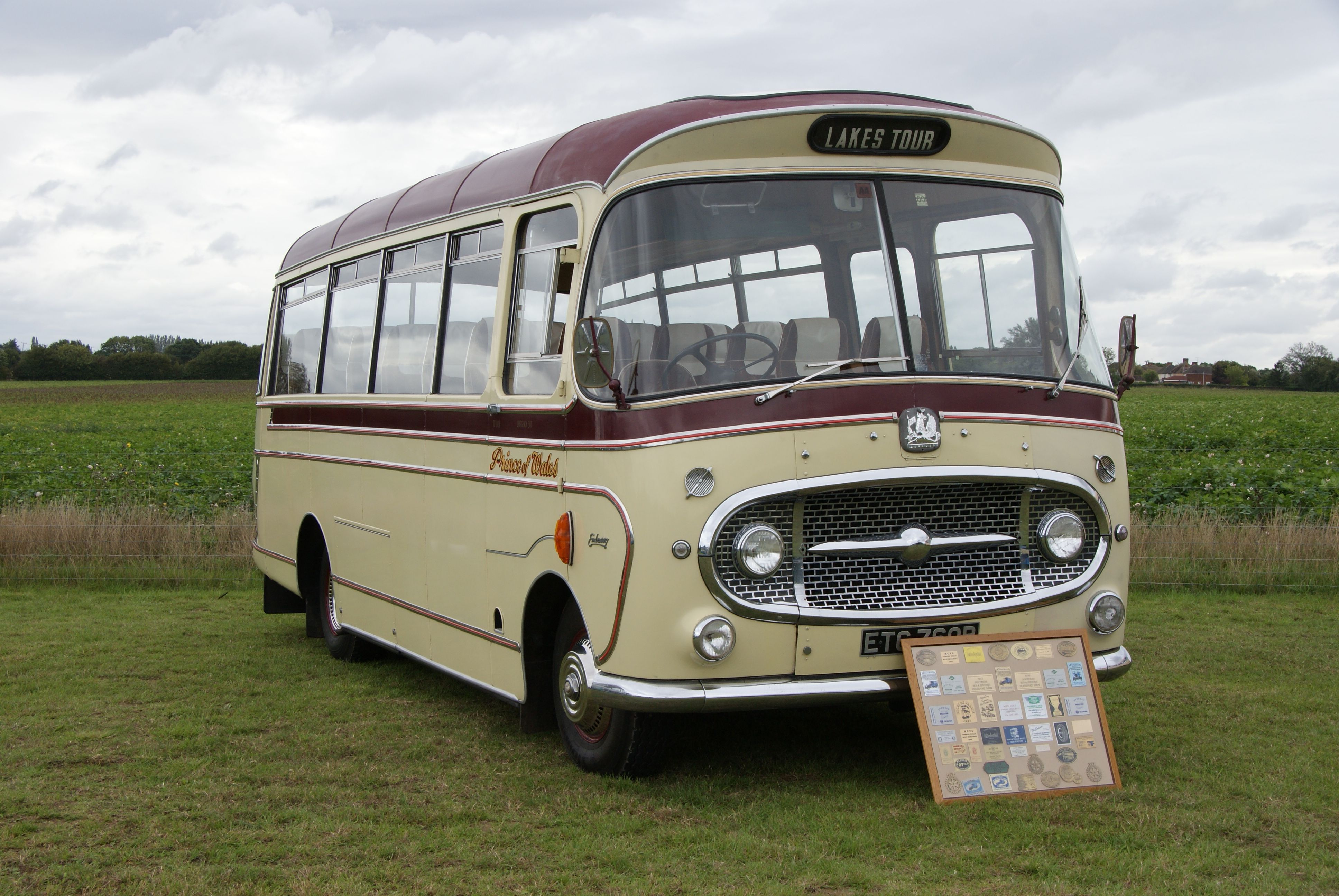 ETC760B-1 290810 CPS